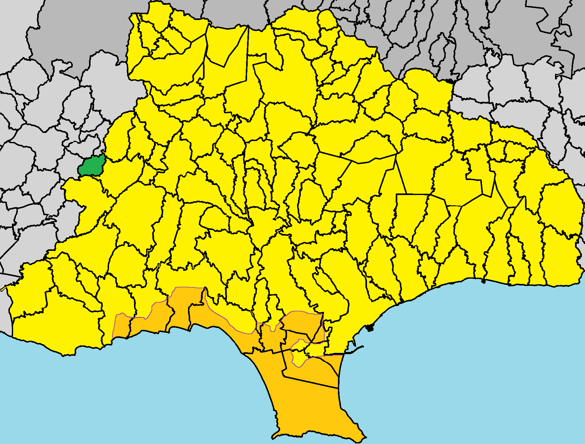 Gerovasa in Limassol District.